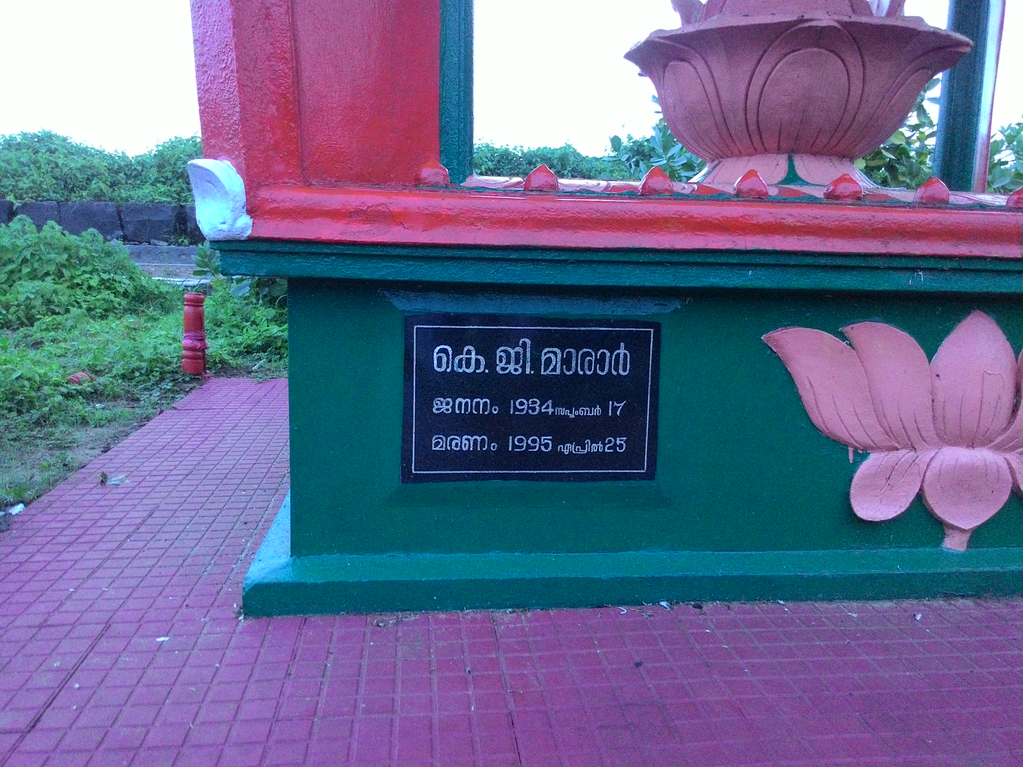 kg maraar monument,at payyaampalam,kannur,kerala